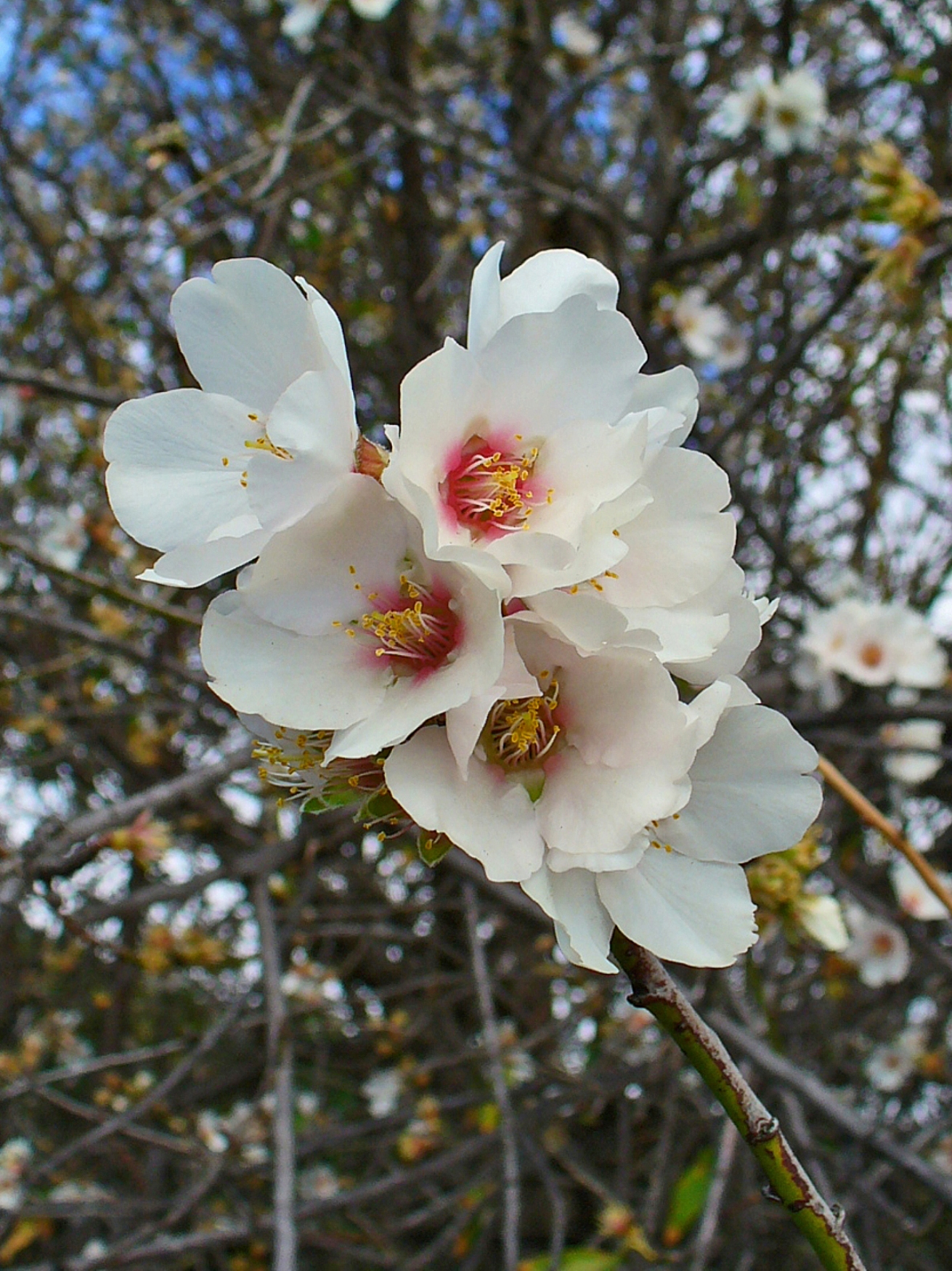 Prunus dulcis, Rosaceae, Almond, Flowers. Between Acantilado de los Gigantes and Tamaimo, Tenerife, Spain.